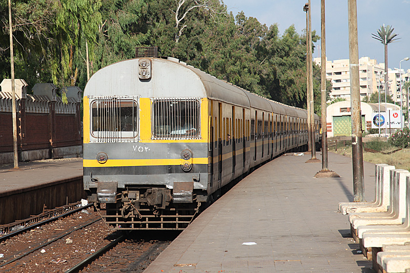 Suburb train from Abu Qir, Alexandria, Egypt